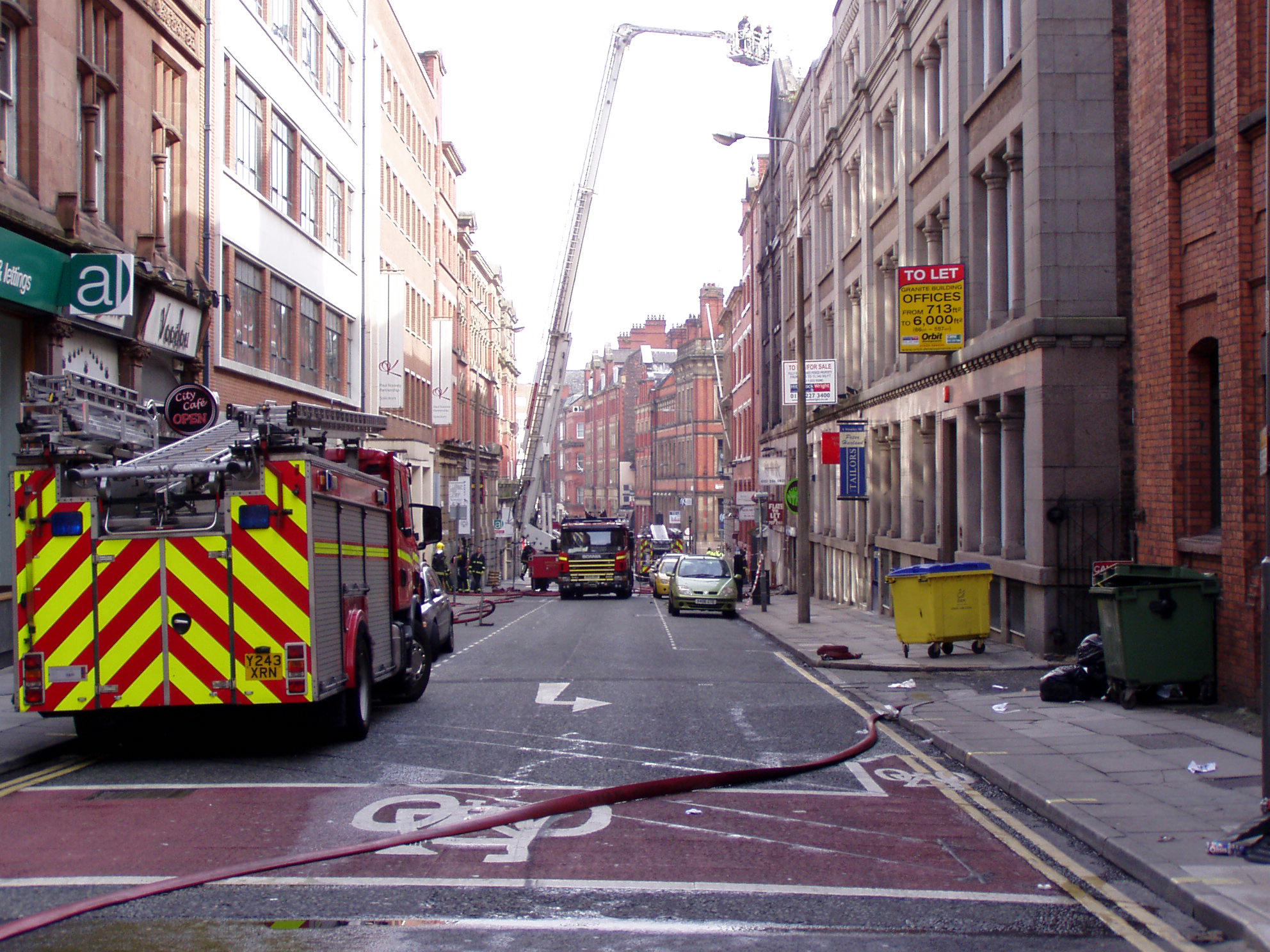 Merseyside Fire and Rescue on STanley STreet attending a fire at a Balti House